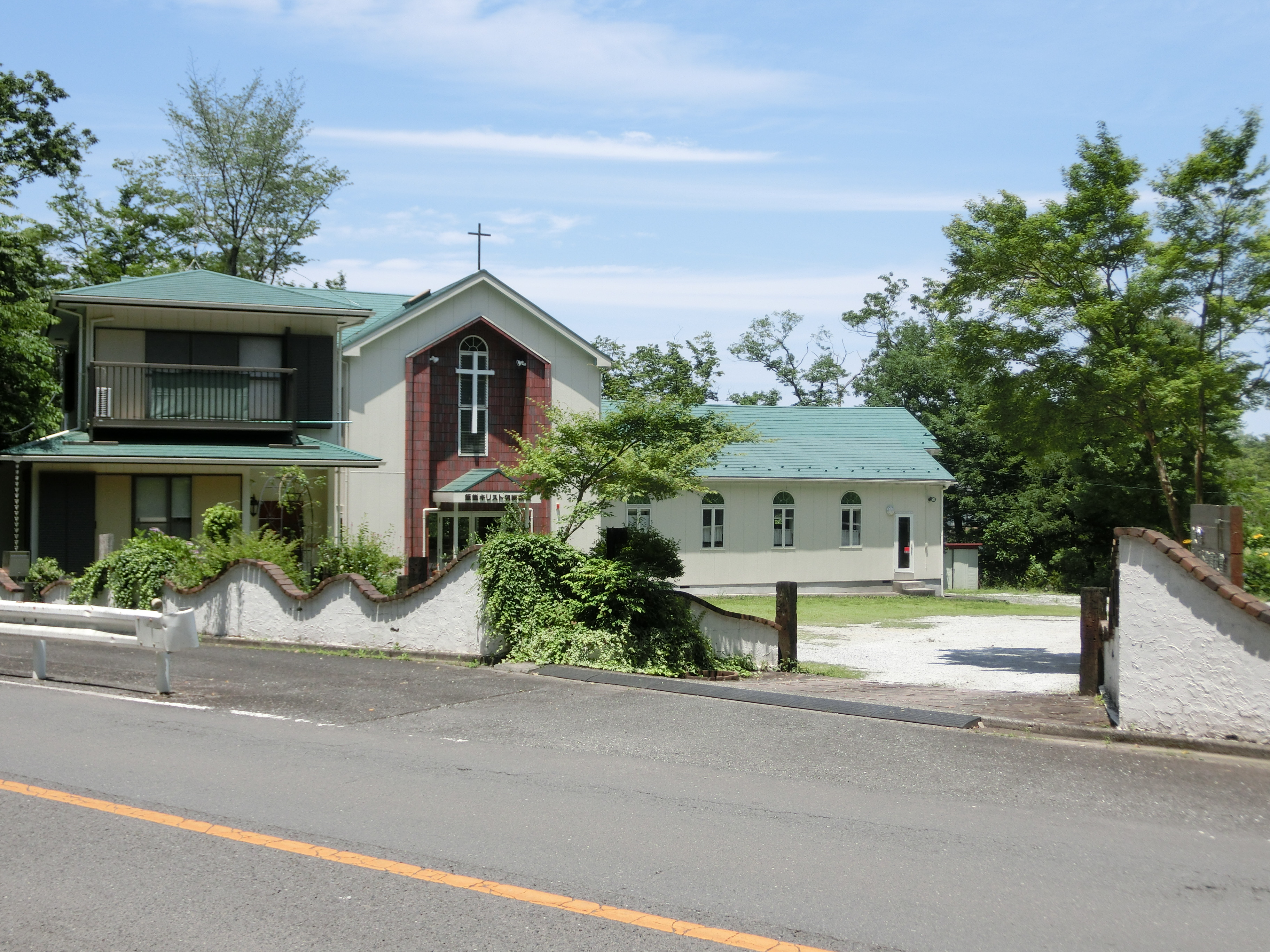 Hanno Christ Seien Church